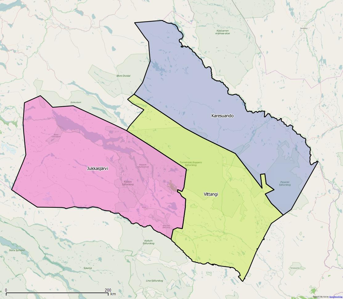 Distriktsindelningen i Kiruna kommun World file: 602.8299683087914218 0 0 -602.8299683087914218 1970274.84716778411529958 10809062.06393538601696491